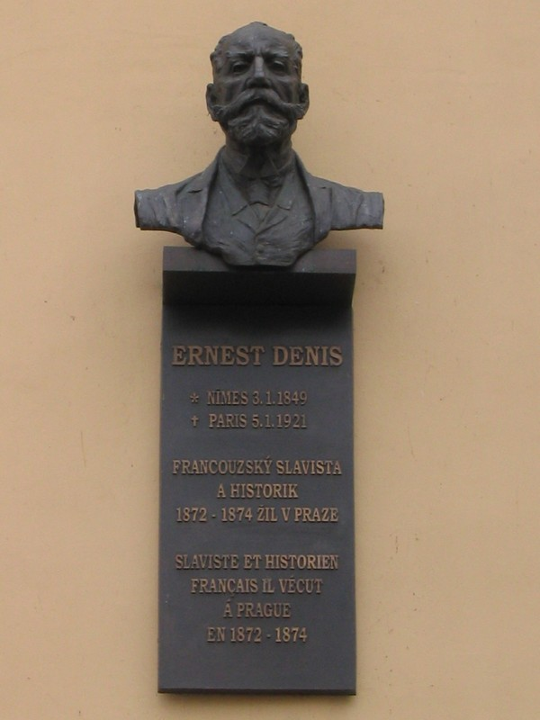 Ernest Denis buste